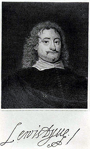 Lewis Dyve Frontispiece to the Bedfordshire Historical Record. Sir Lewis Dyve (1599–1669) was an English Member of Parliament and a Royalist adherent during the English Civil War. His surname is sometimes also spelt Dive or Dives. Date unknown